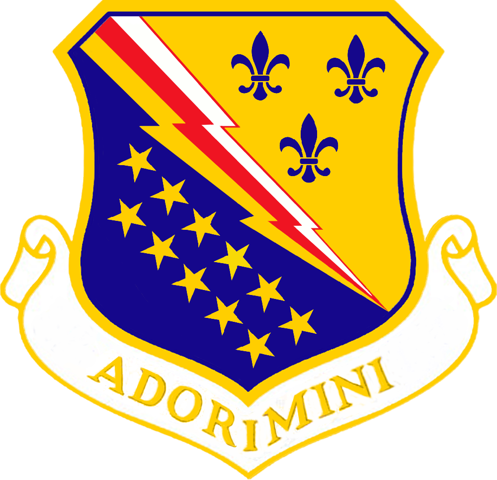 United States Air Force 82d Flying Training Wing emblem (used by 82d Operations Group with group designation on scroll). Made with Photoshop.